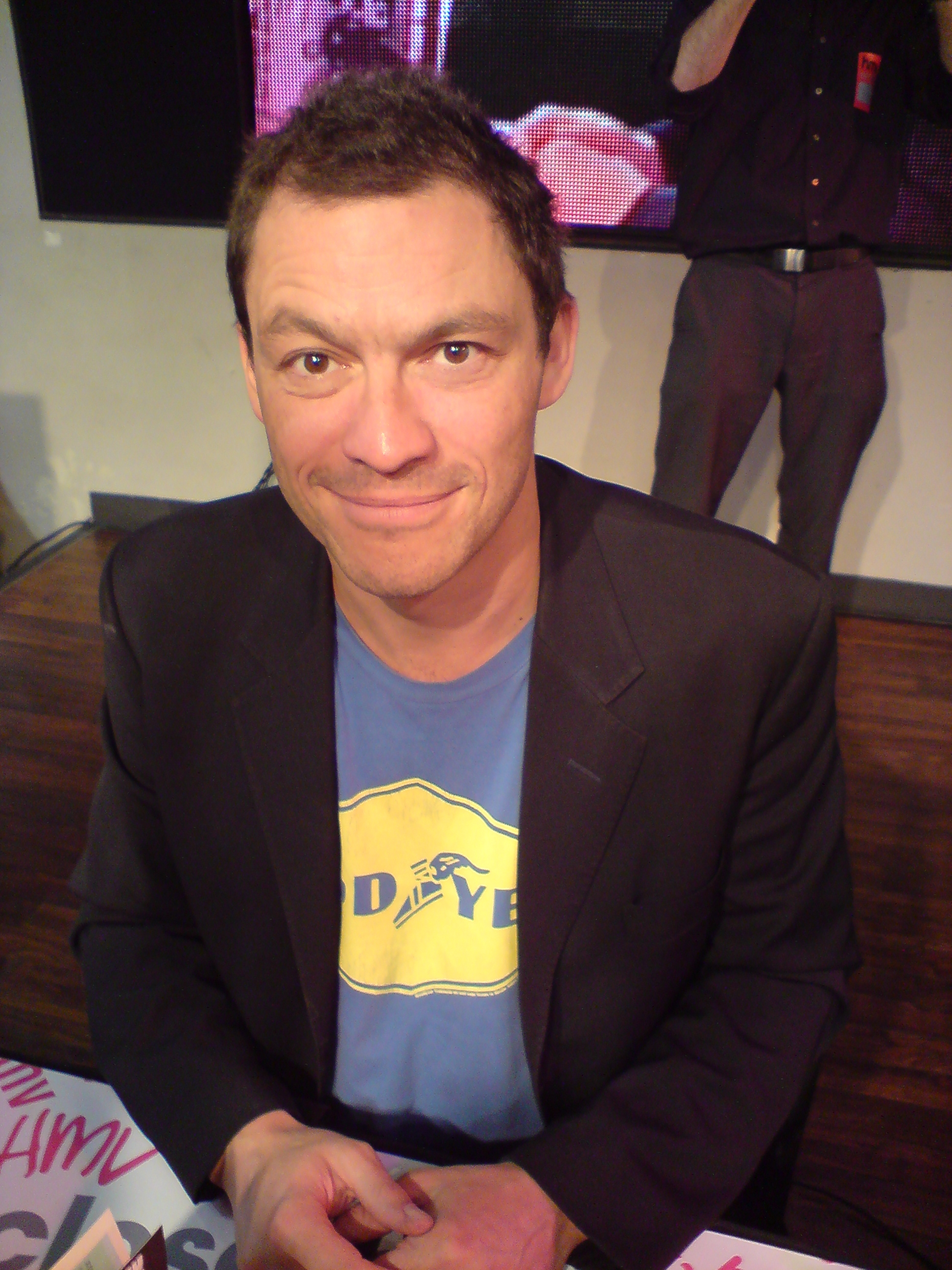 Dominic West plays McNulty in The Wire. He manages to pull of a pretty good Baltimore accent when in reality he's from Sheffield. Had a nice chat with him about going to film people who make armour from Sheffield steel. He was strangely interested!